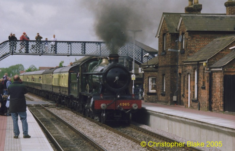 GWR 4900 Class 4965 Rood Ashton Hall at Narborough railway station.